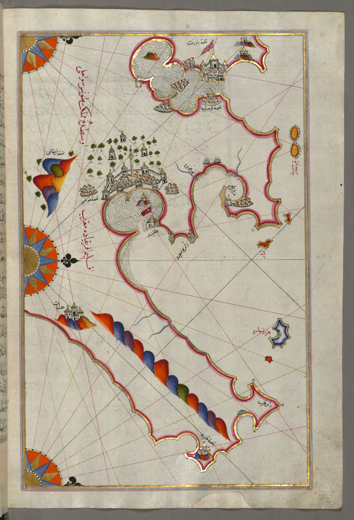 This folio from Walters manuscript W.658 contains a map of the Tunisian coast with the ports of Bizerte (Binzert) and Tunis (Tunus) as far as Kelibia (Qalabiyah).